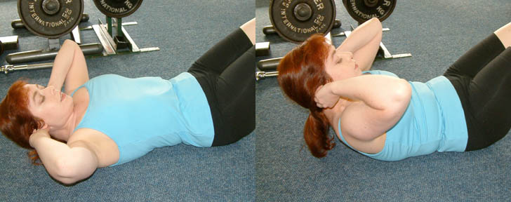 Thanks go to the model, Emily.